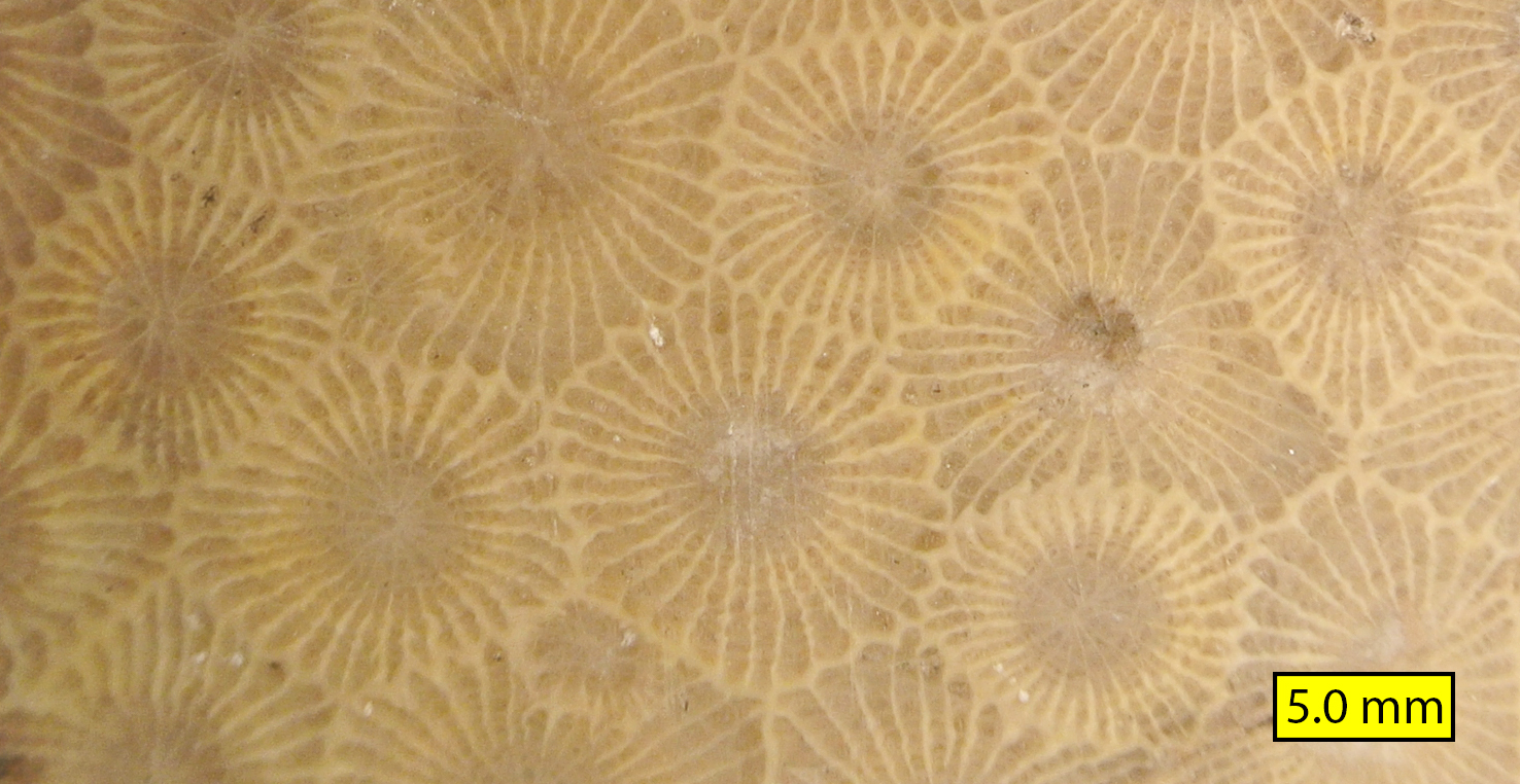 Close view of Hexagonaria percarinata, a Devonian rugose coral from Michigan.